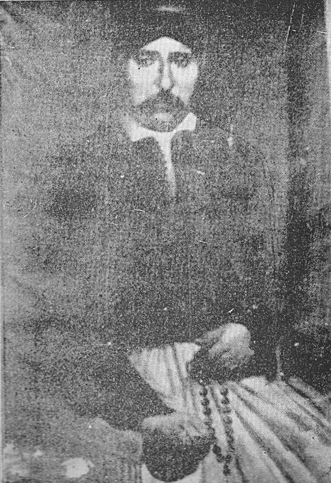 ConstantinosGofas